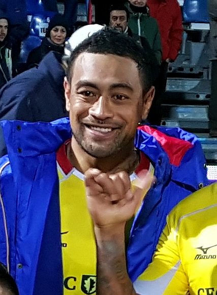 Jack Umaga of Romania National Rugby Team after a test match against United States National Rugby Team in November 2016